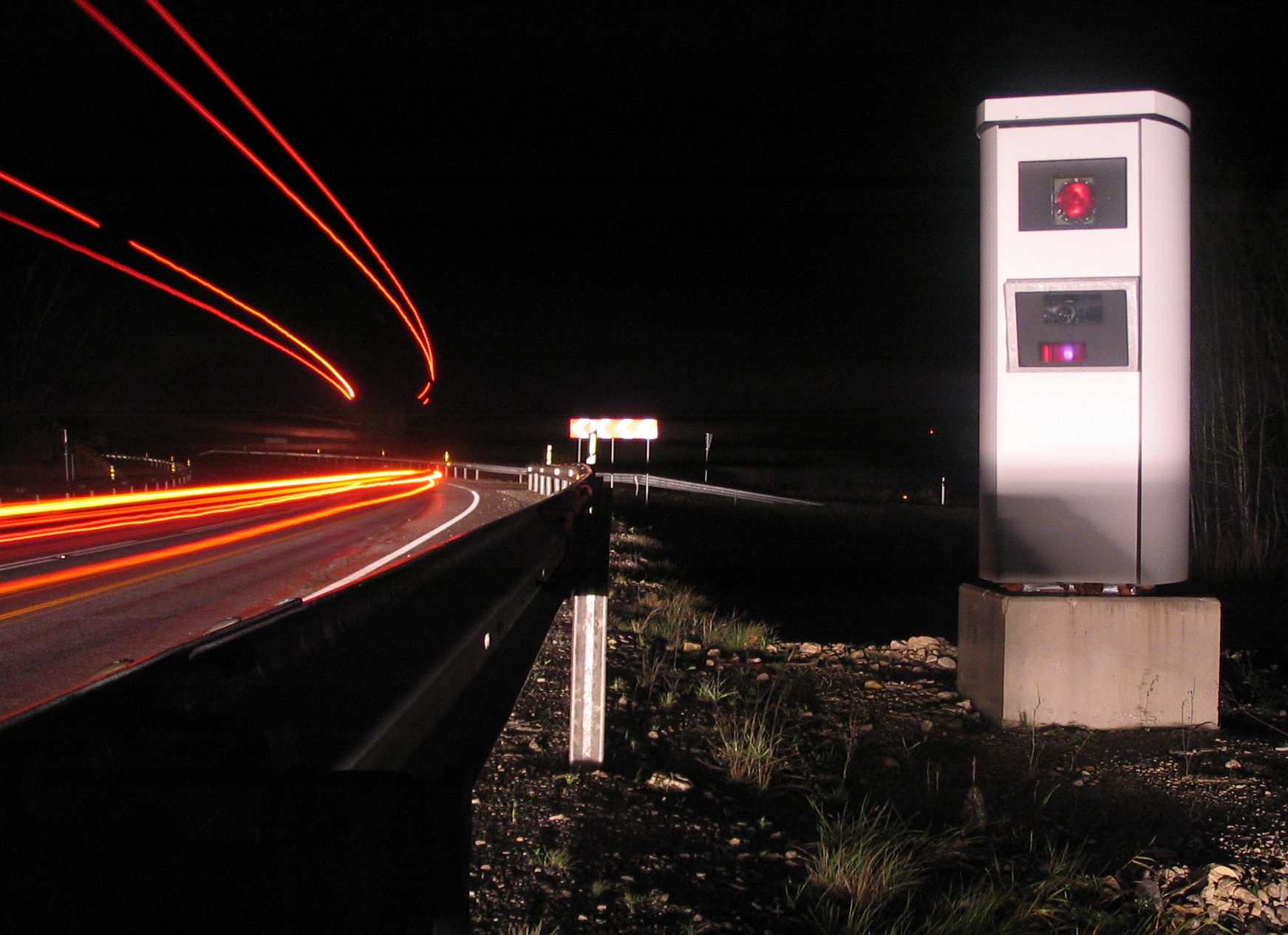 Speed camera in Estonia.